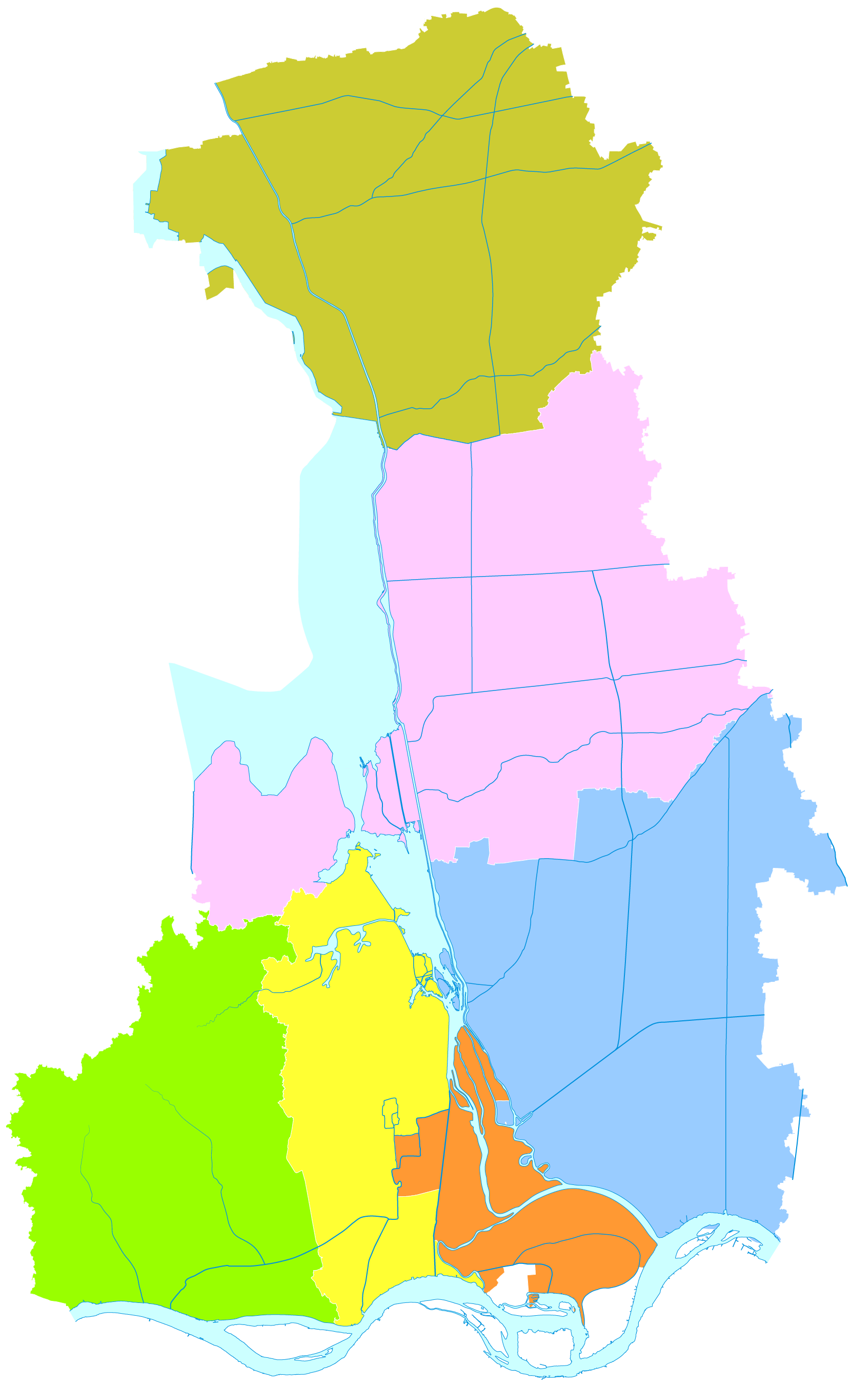 administrative divisions of Yangzhou City, Jiangsu, China